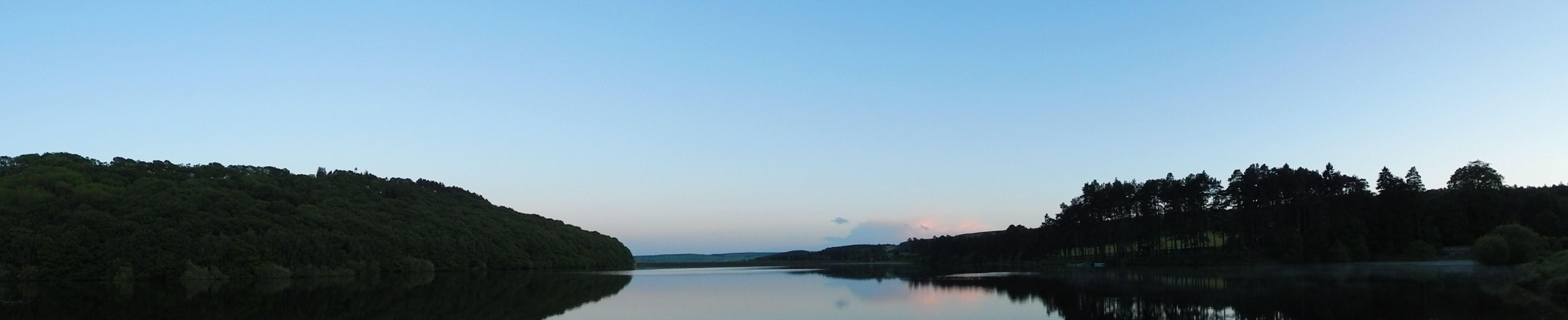 View looking south down Tunstall Reservoir at sunset with Backstone Bank wood on the left.